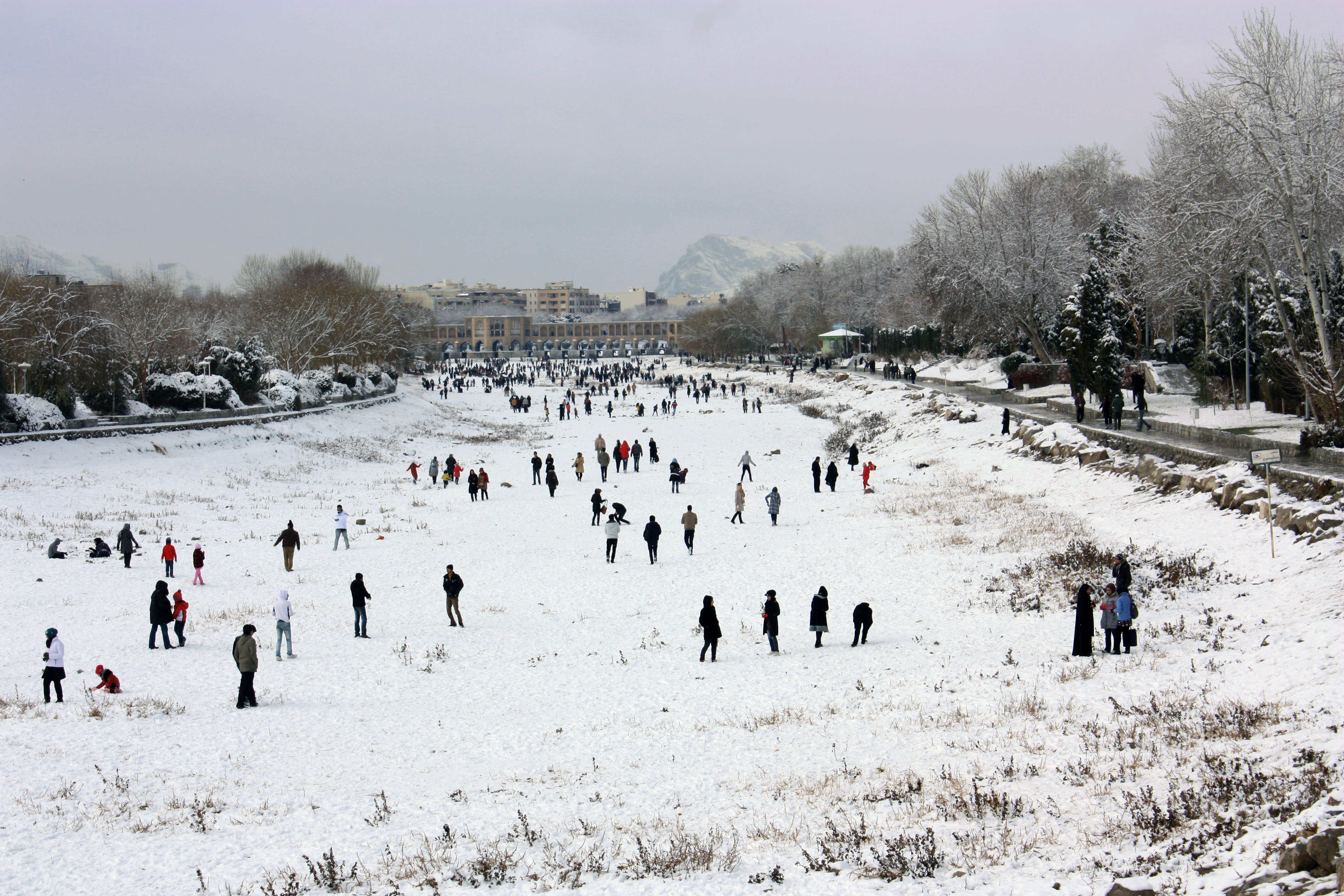 Large scale snowball fight in dry riverbed near Khaju bridge